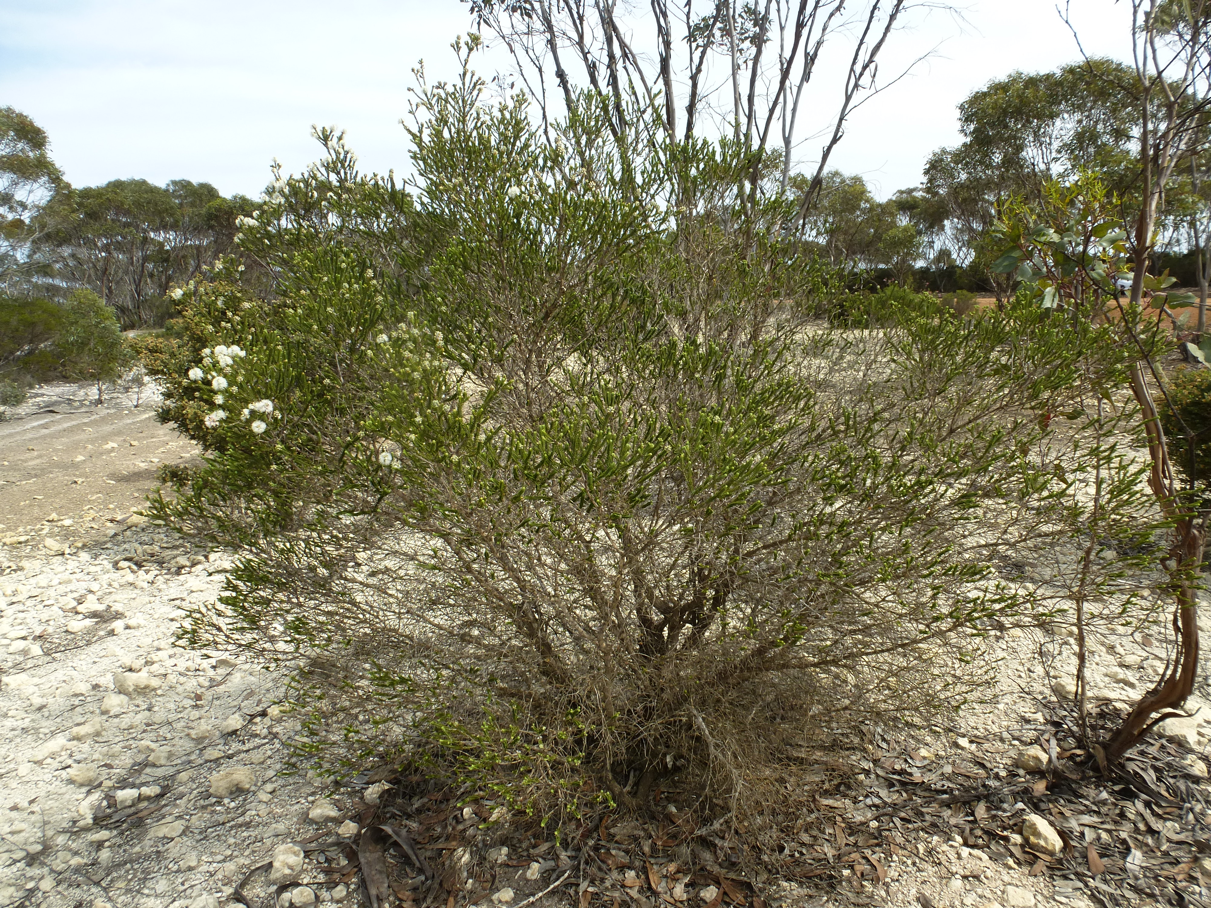 Melaleuca quadrifaria growing near Scaddan Road